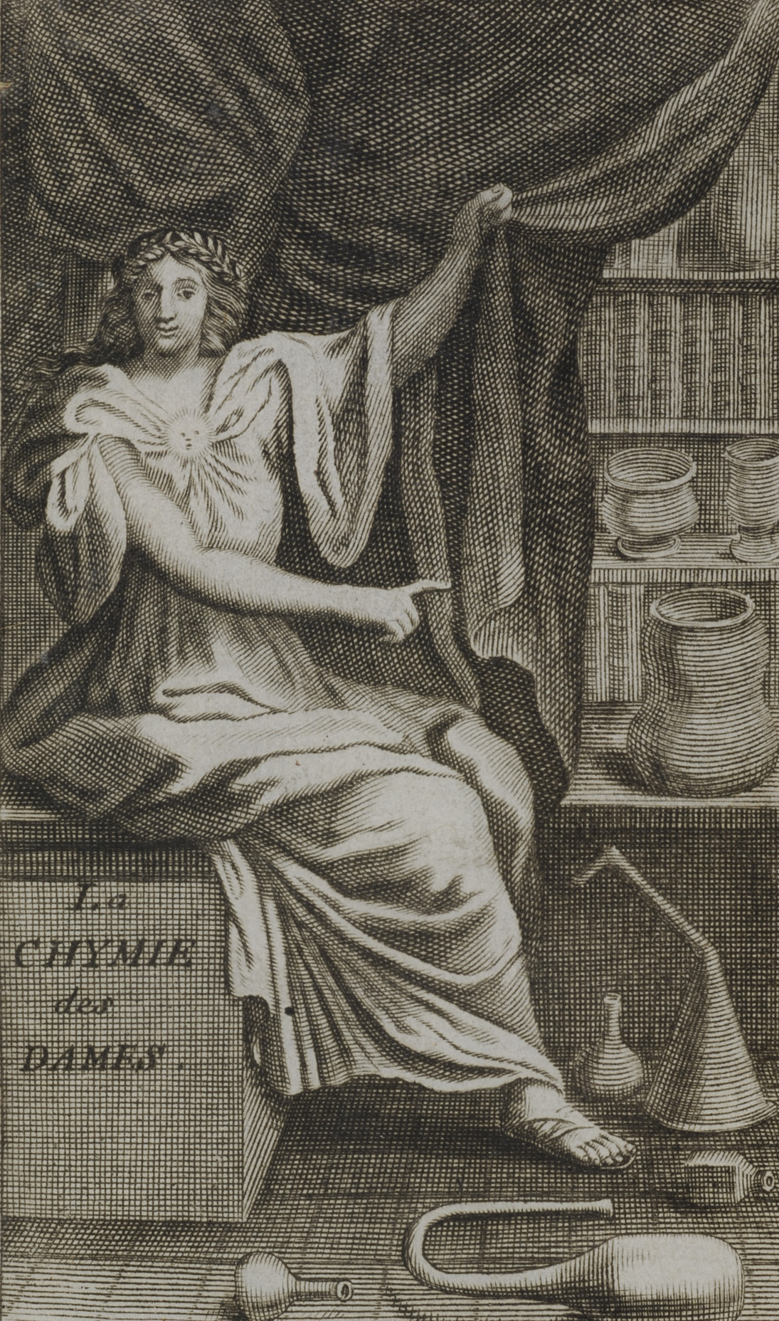 Frontispiece from La chymie charitable et facile, en faveur des dames by Marie Meurdrac. Paris : L. d'Houry, 1687.